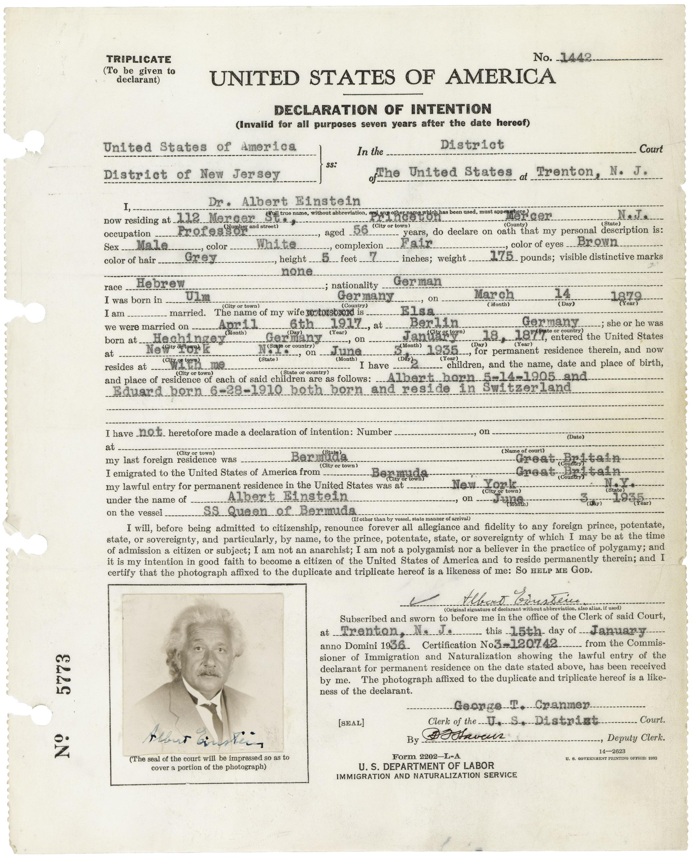 Declaration of Intention for Albert Einstein, 01/15/1936